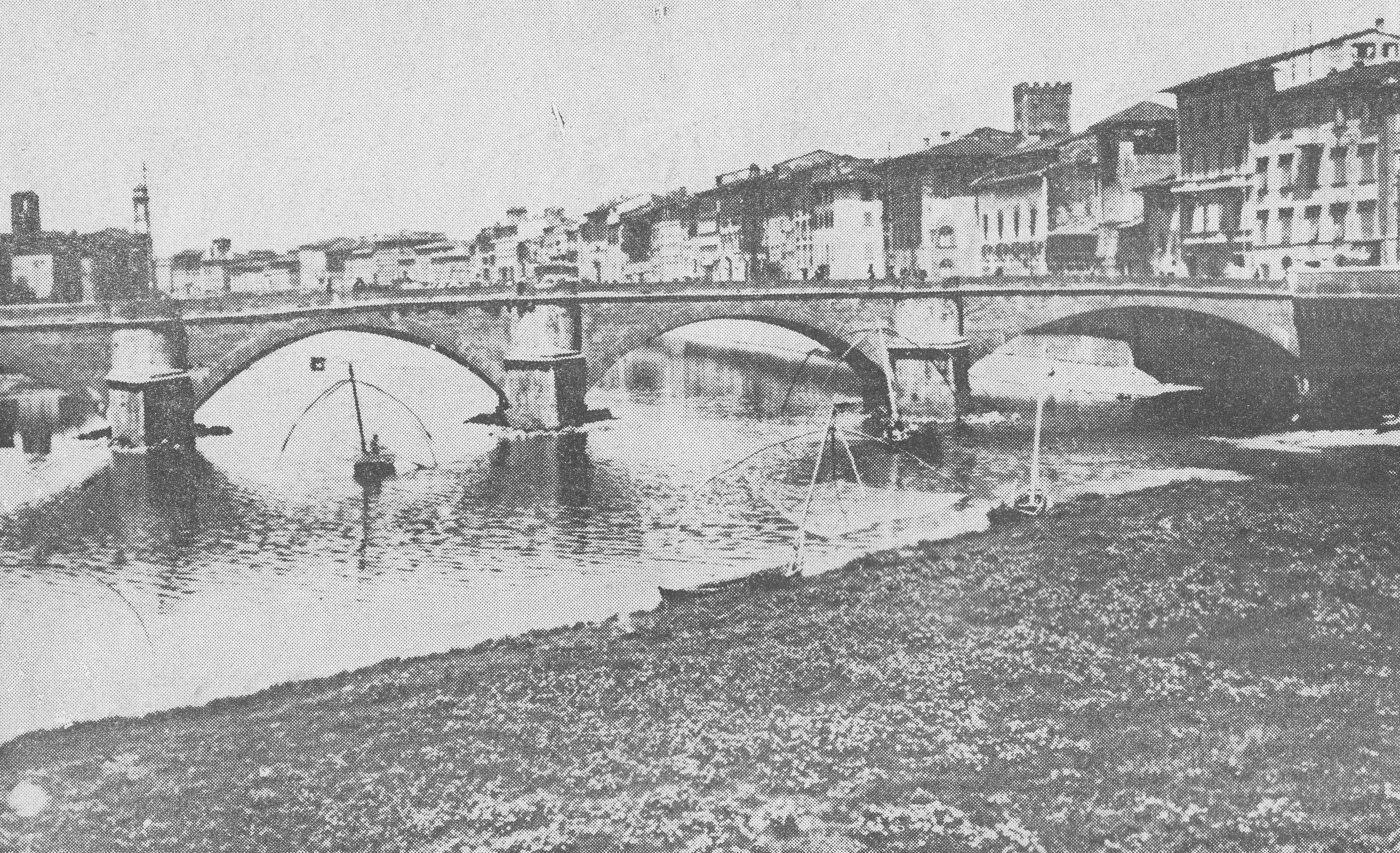 Fishermen under the old Fortezza bridge in Pisa, Tuscany, Italy.